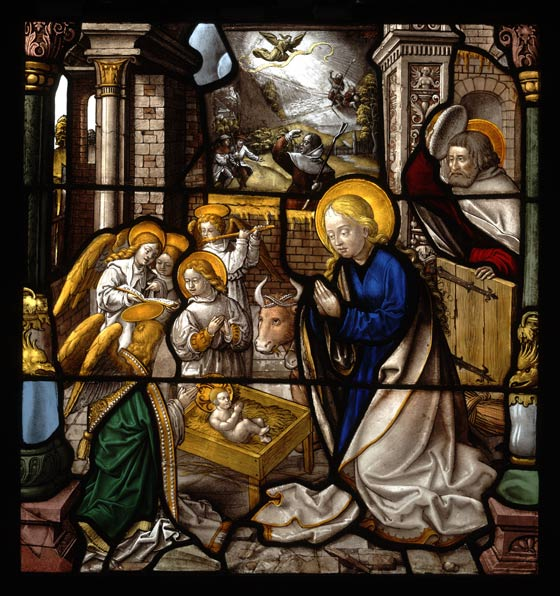 Stained glass from Mariawald Abbey depicting the Nativity